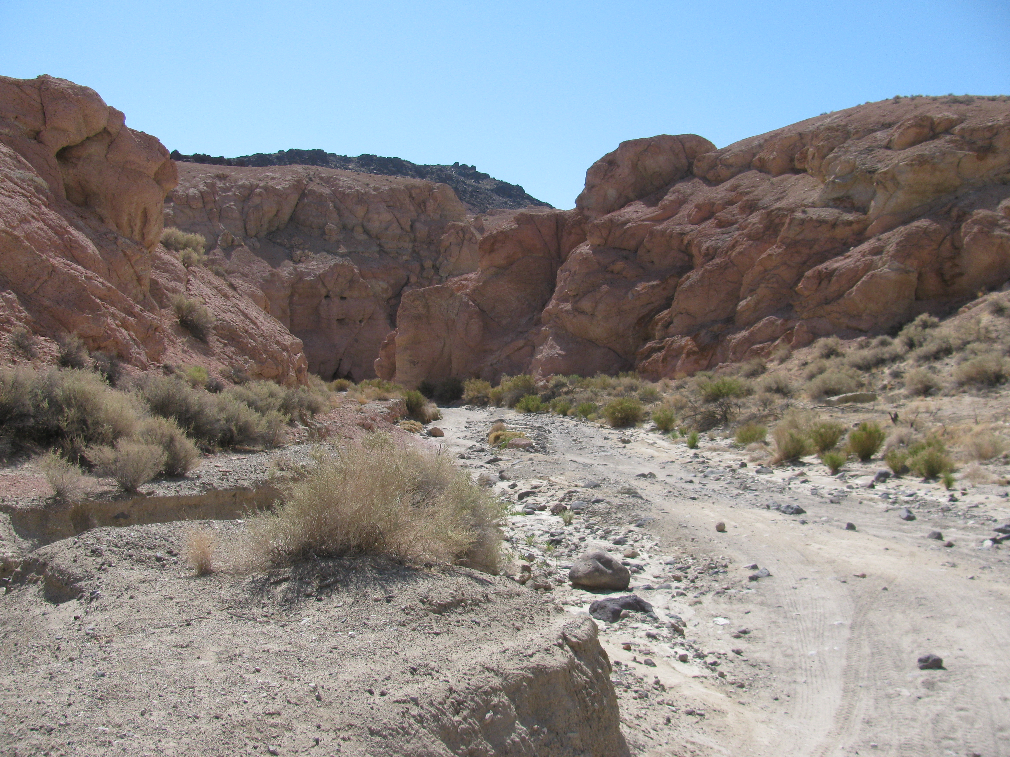 Near Cudahy Camp where the canyon narrows.